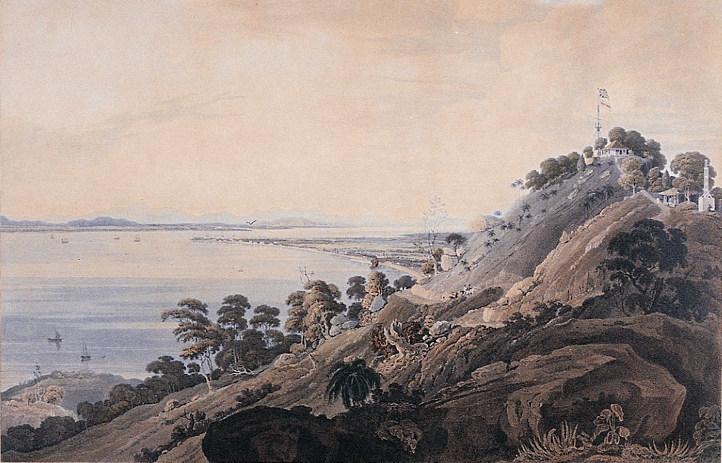 Title: View of Mount Erskine and Pulo Ticoose Prince of Wales's Island Media: Aquatint Width: 355 mm (14.0 in) Height: 460 mm (18 in) Year of creation: 1818 Mode of acquisition: Presented by Estate of late Heah Joo Seang, 1969